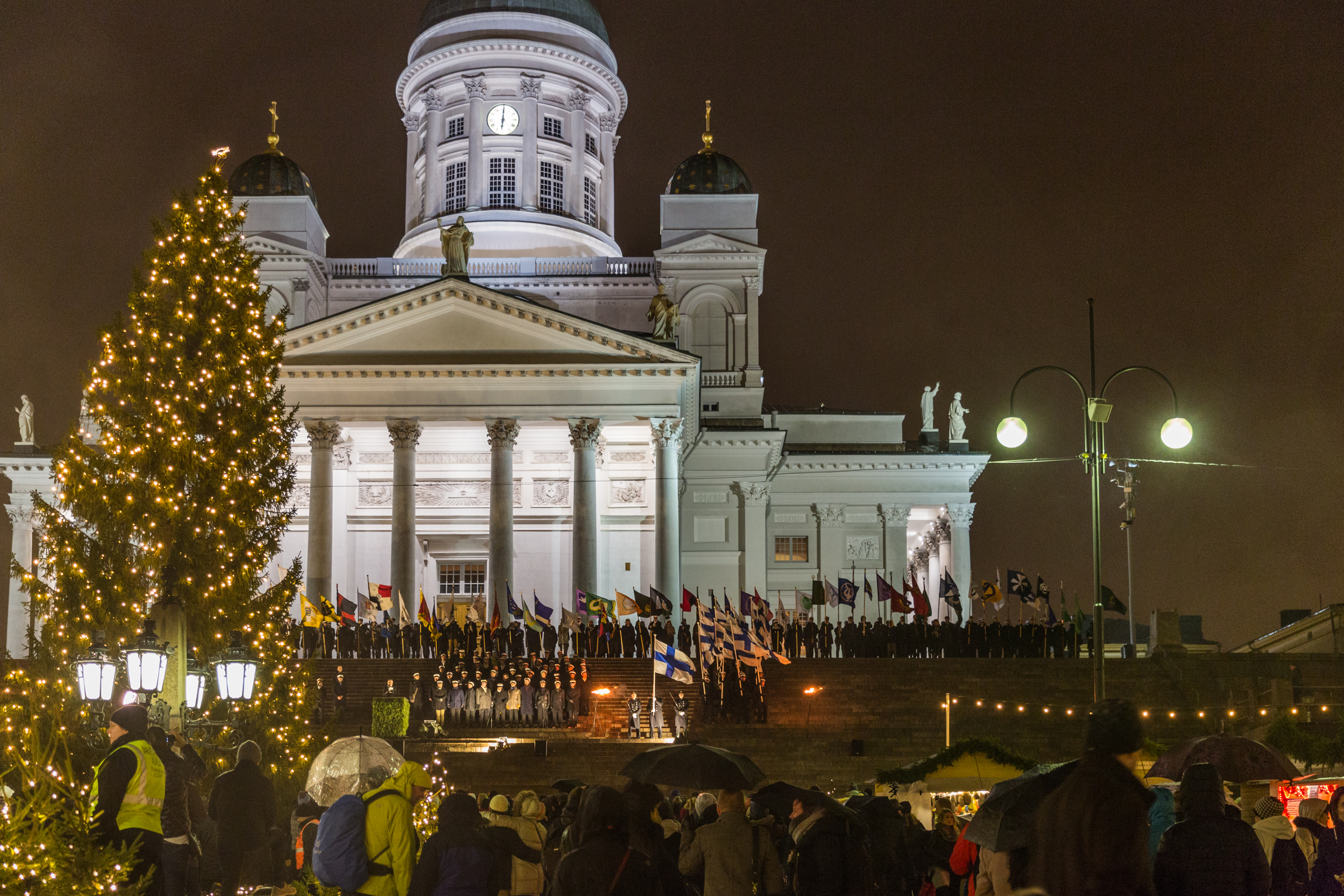 Student's torch cavalcade on Independence day 2015, Senate Square Helsinki